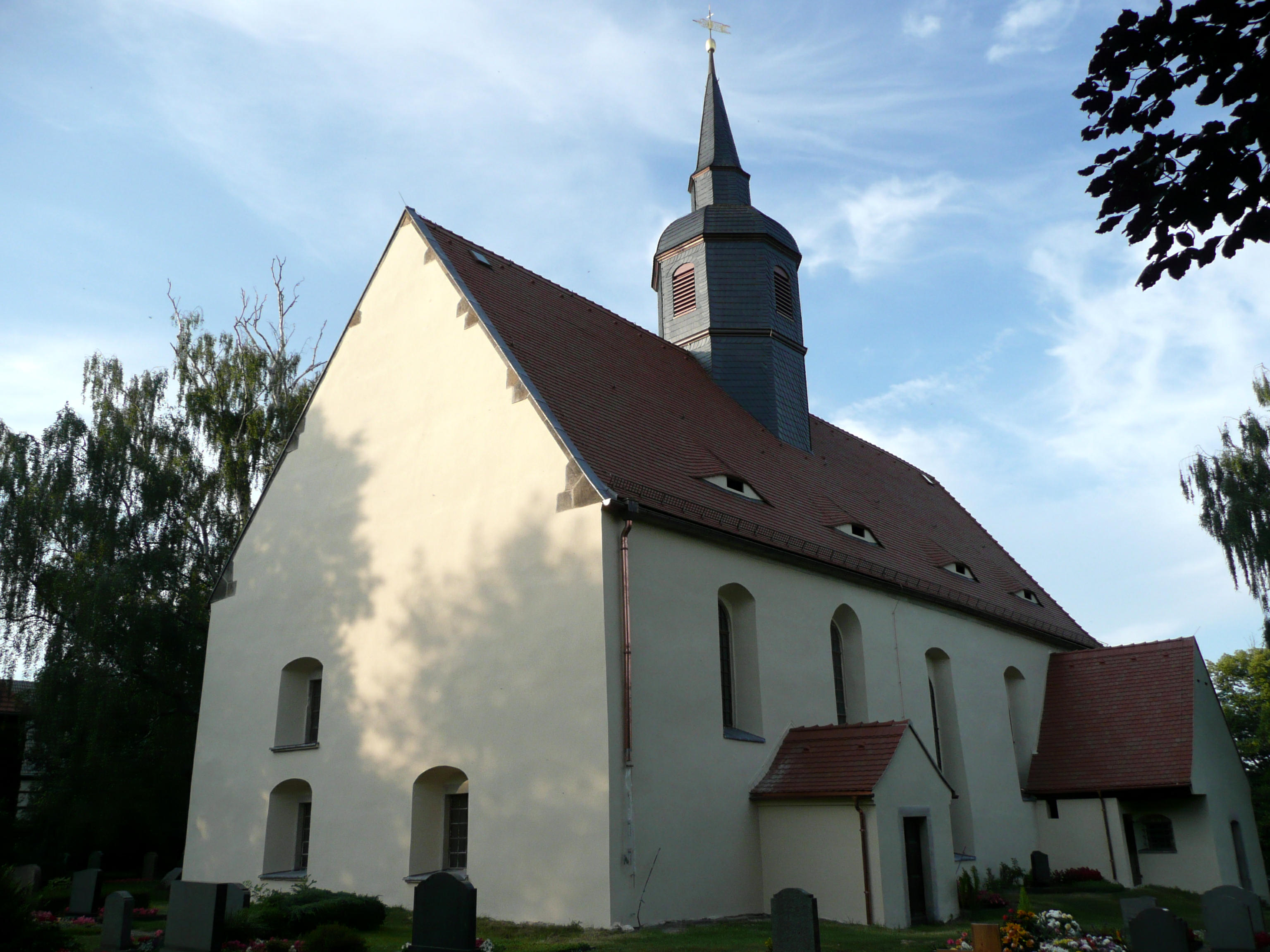 This image shows the evangelic church in Grumbach near Wilsdruff.